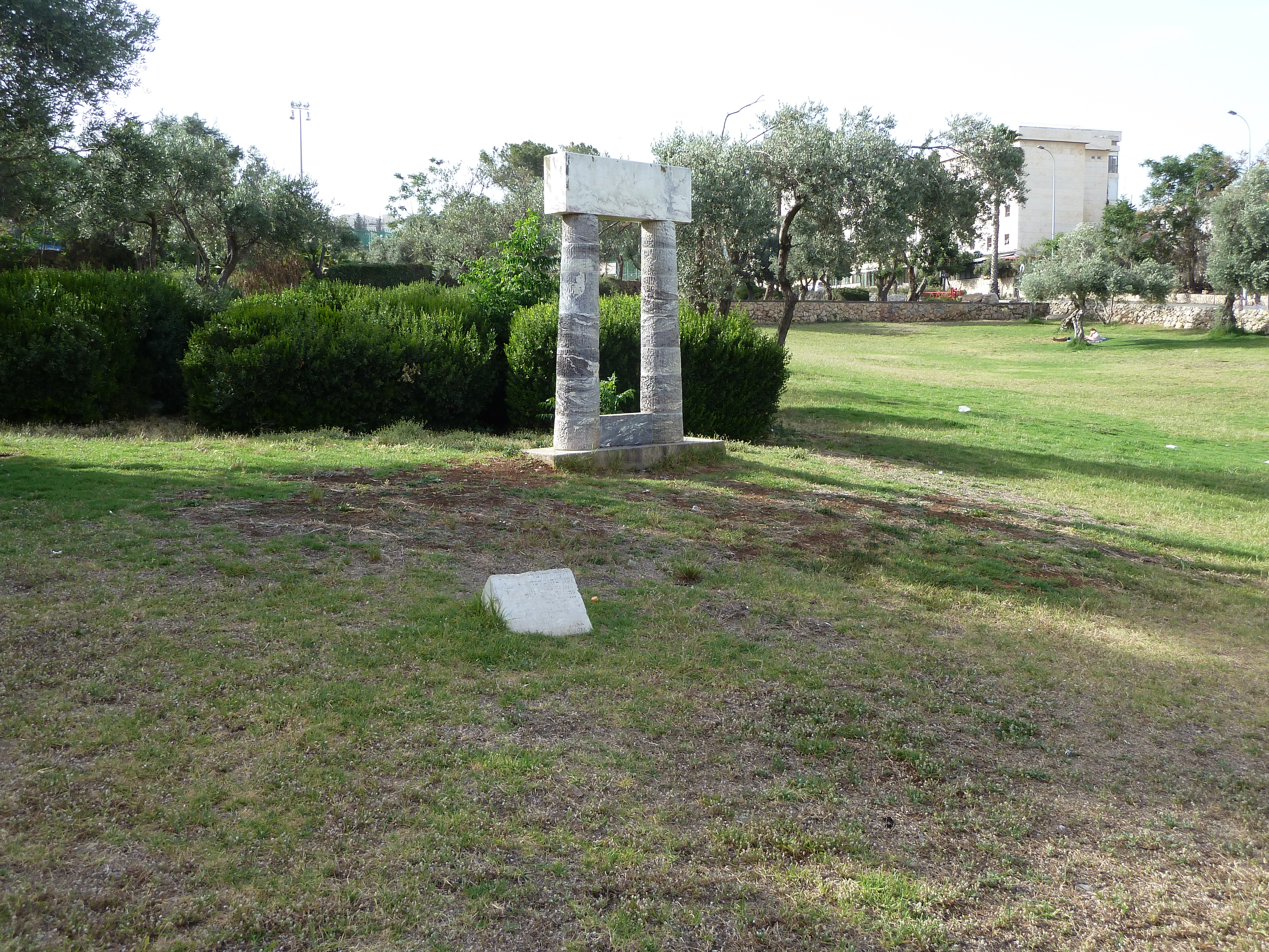 Jerusalem, Sacher Park, Walter Dusenbery Sculpture "Porta Barga" (1980)